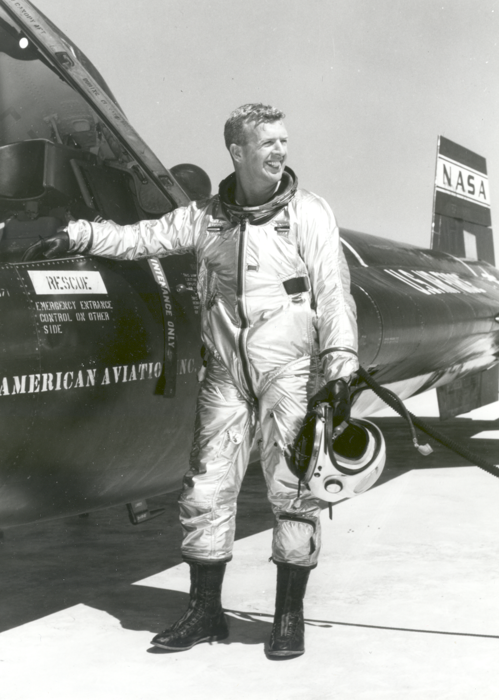 NASA test pilot Joe Walker beside an X-15 airplane, following 169,000-foot altitude flight on March 30, 1961. The X-15 flew 199 times from 1959 to 1968 and was an extremely successful aeronautics research program that laid the hypersonics basis for later spacecraft such as the Space Shuttle.